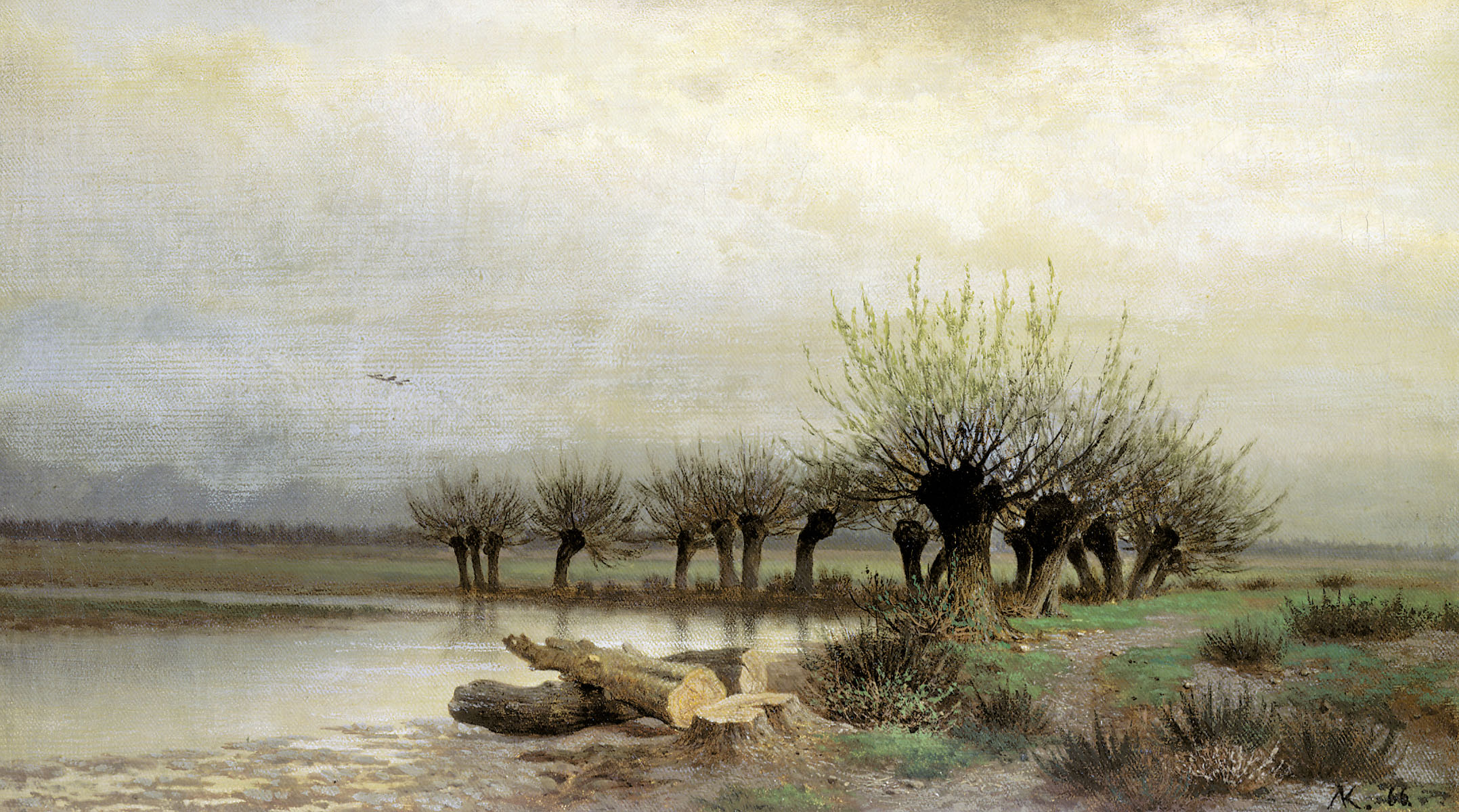 Spring by Lev Kamenev.